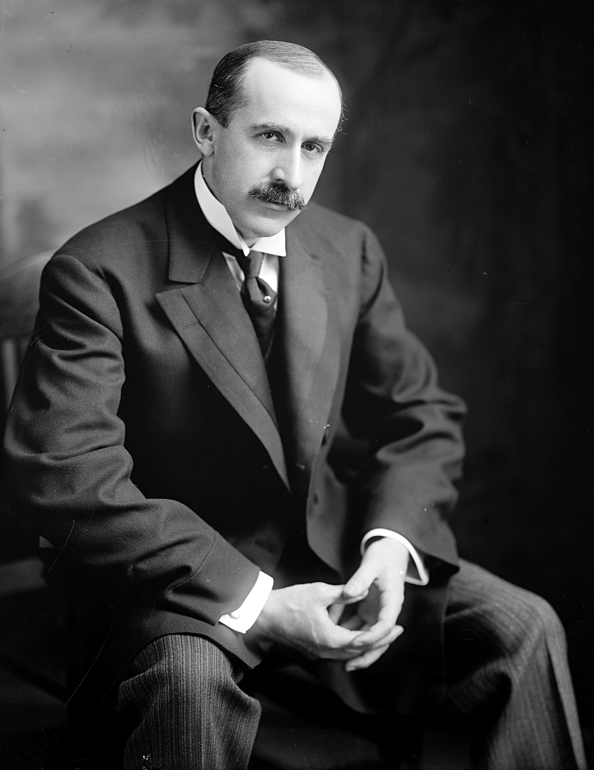 John Geiser McHenry, US Representative from Pennsylvania